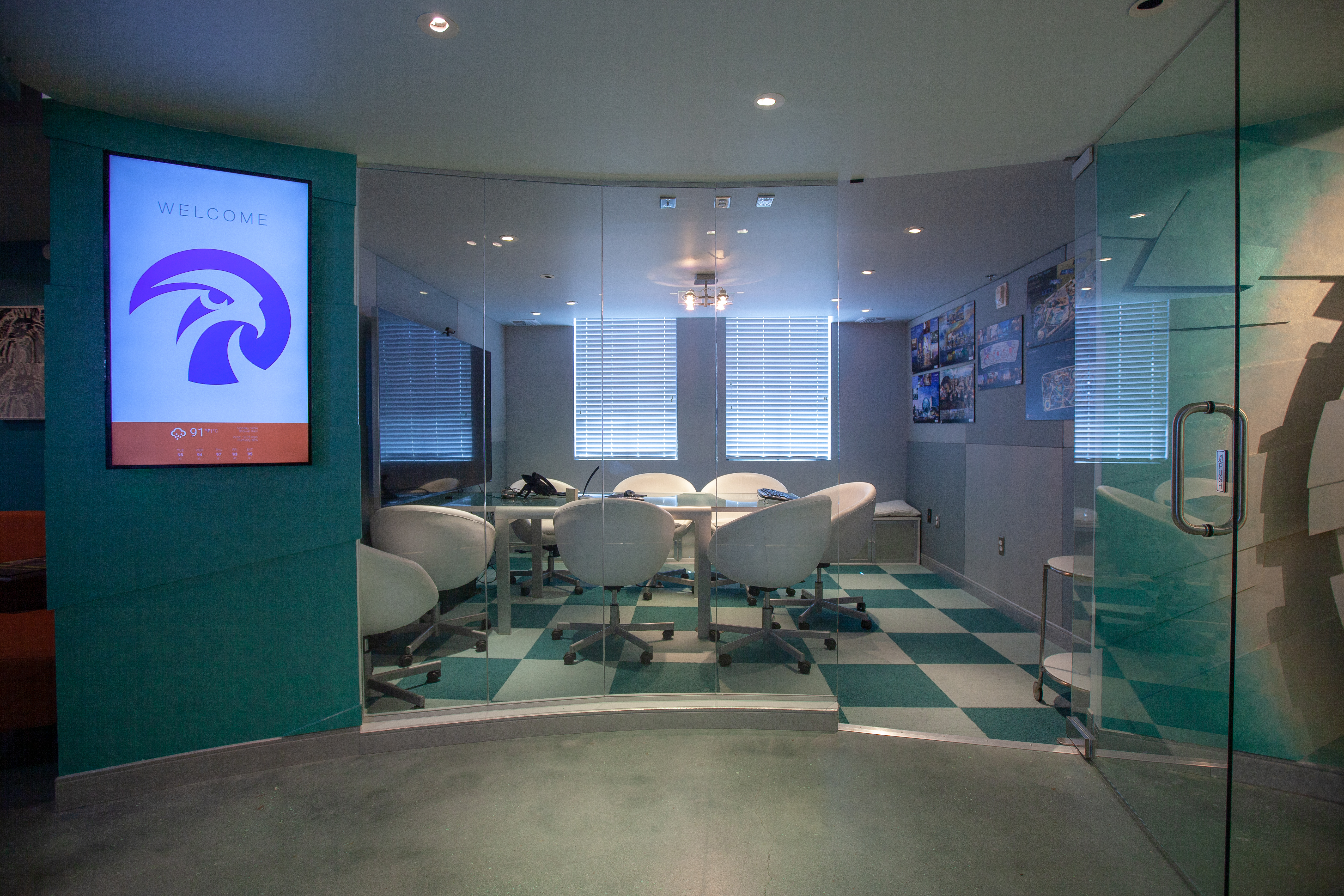 Office entrance at Falcon's Creative Group